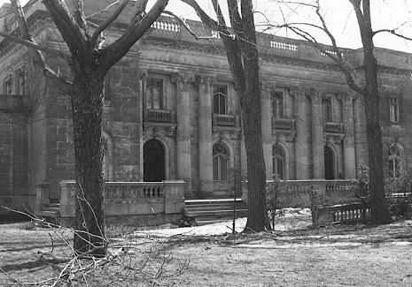 Former Dufresne Pavillon of the Collège Sainte-Croix in 1961, now Collège de Maisonneuve, 4040 Sherbrooke Street East, Montreal, Quebec, Canada.